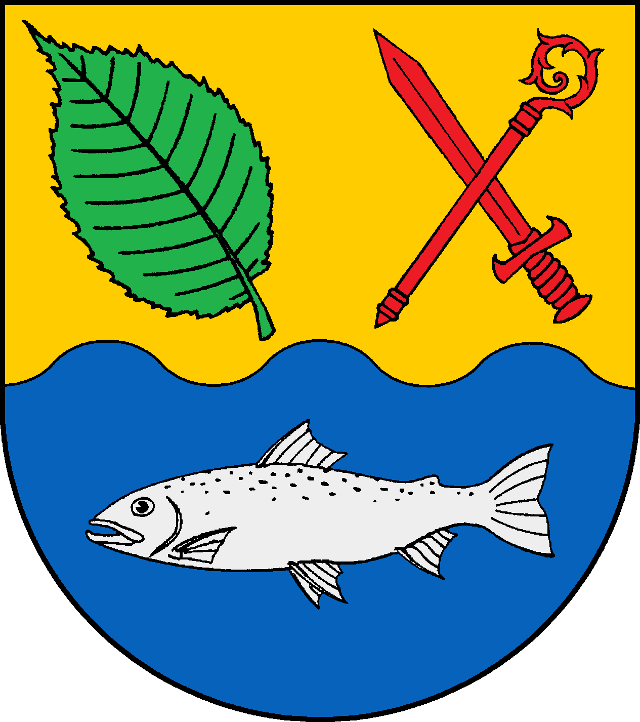 Coat of arms of the municipality Elmenhorst in Schleswig-Holstein, Germany.